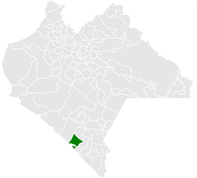 Map of the Municipalty of Acapetahua in the State of Chiapas, México.